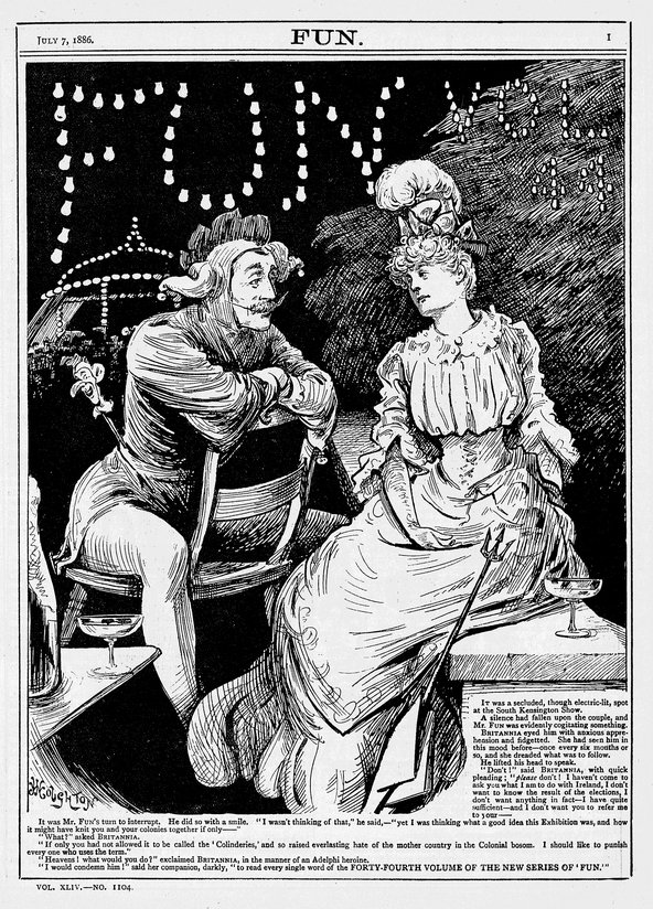 Cartoon of Mr. Fun and Britannia (depicted as a heavily-corseted Victorian young matron with parasol with little trident handle) having a discussion on the state of the British Empire